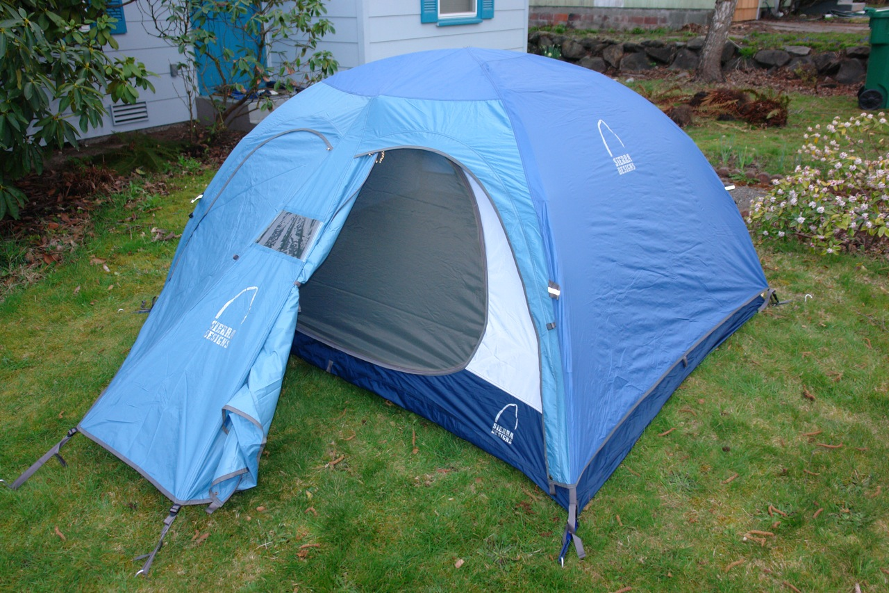 The rain fly opens like this on both sides, so both doors can be almost completely accessible even with the rain fly on.